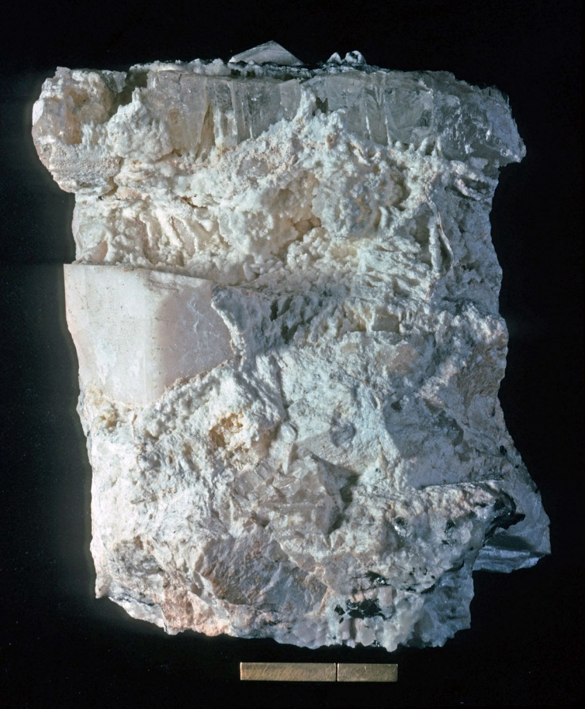 Petalite Locality: San Piero in Campo, Campo nell'Elba, Elba Island, Livorno Province, Tuscany, Italy Specimen is from the collection of the British Museum of Natural History #86868 (1975). Scale at bottom of image is an inch with a rule at one cm.